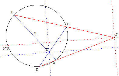 Antiparallel (mathematics) : In any quadrilateral inscribed in a circle, any two opposite sides are anti-parallel with respect to the other two sides.